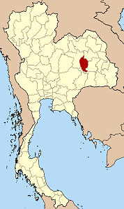 Map of Thailand highlighting Maha Sarakham province